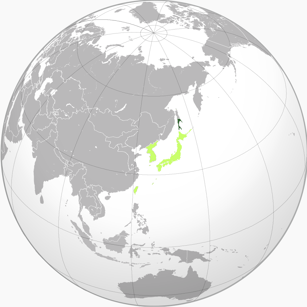 Green: Karafuto Prefecture within Japan in 1942 Light green: Other constituents of Imperial Japan